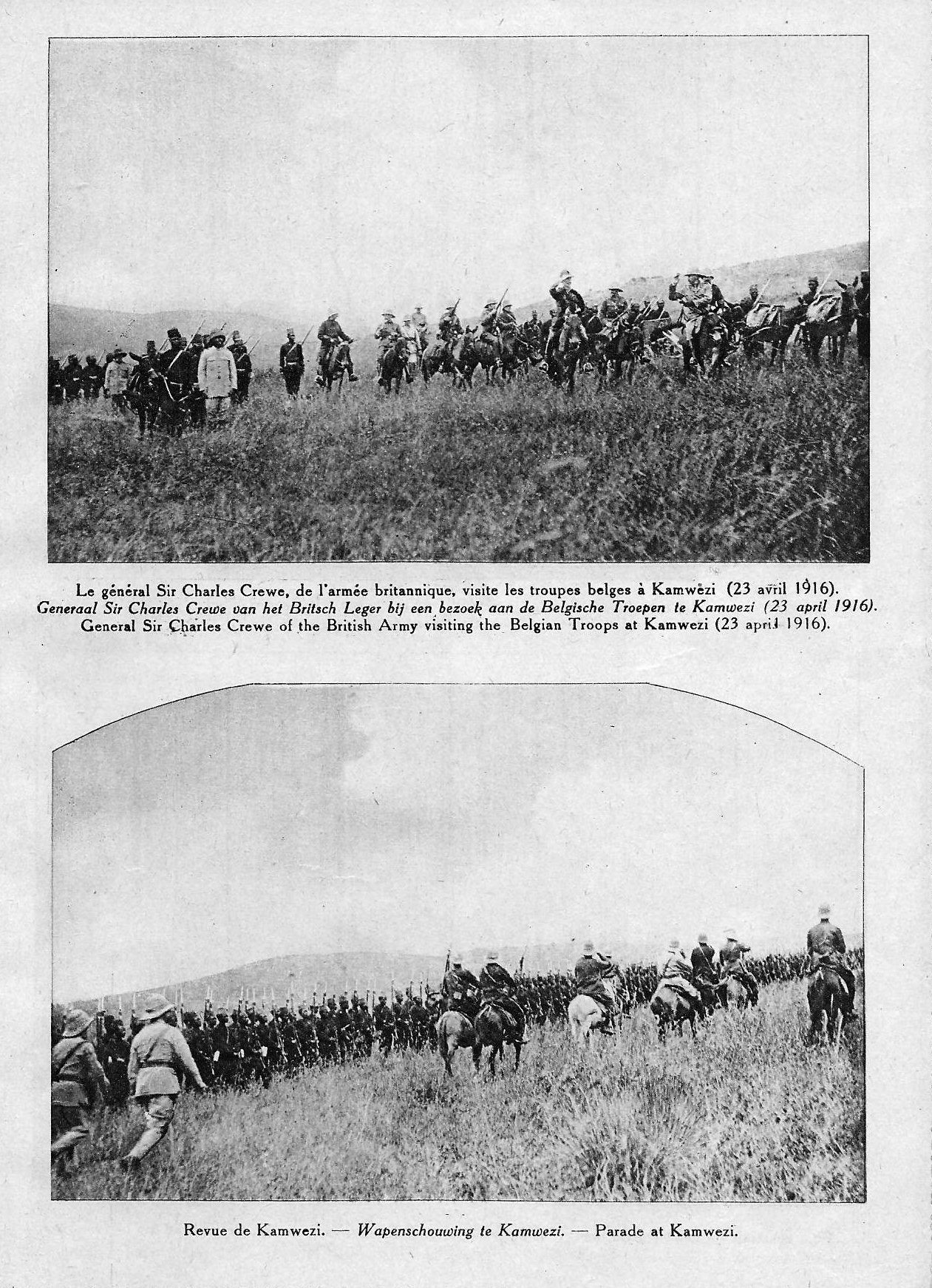 Inspection of Belgian troops in Kambezi, Uganda, by a British general just before the start of the offensive.